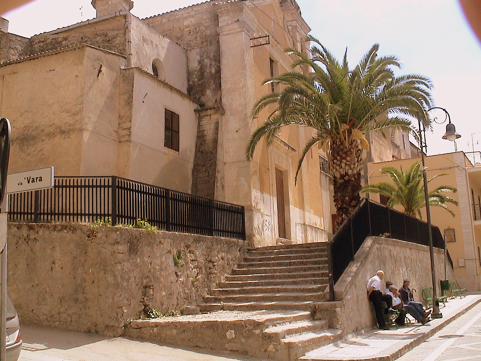 Corso Vittorio Emanuele. Main Street of Lucca Sicula, Agrigento, Sicily, Italy